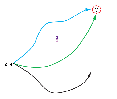 An illustration of 解析接続（Analytic continuation）